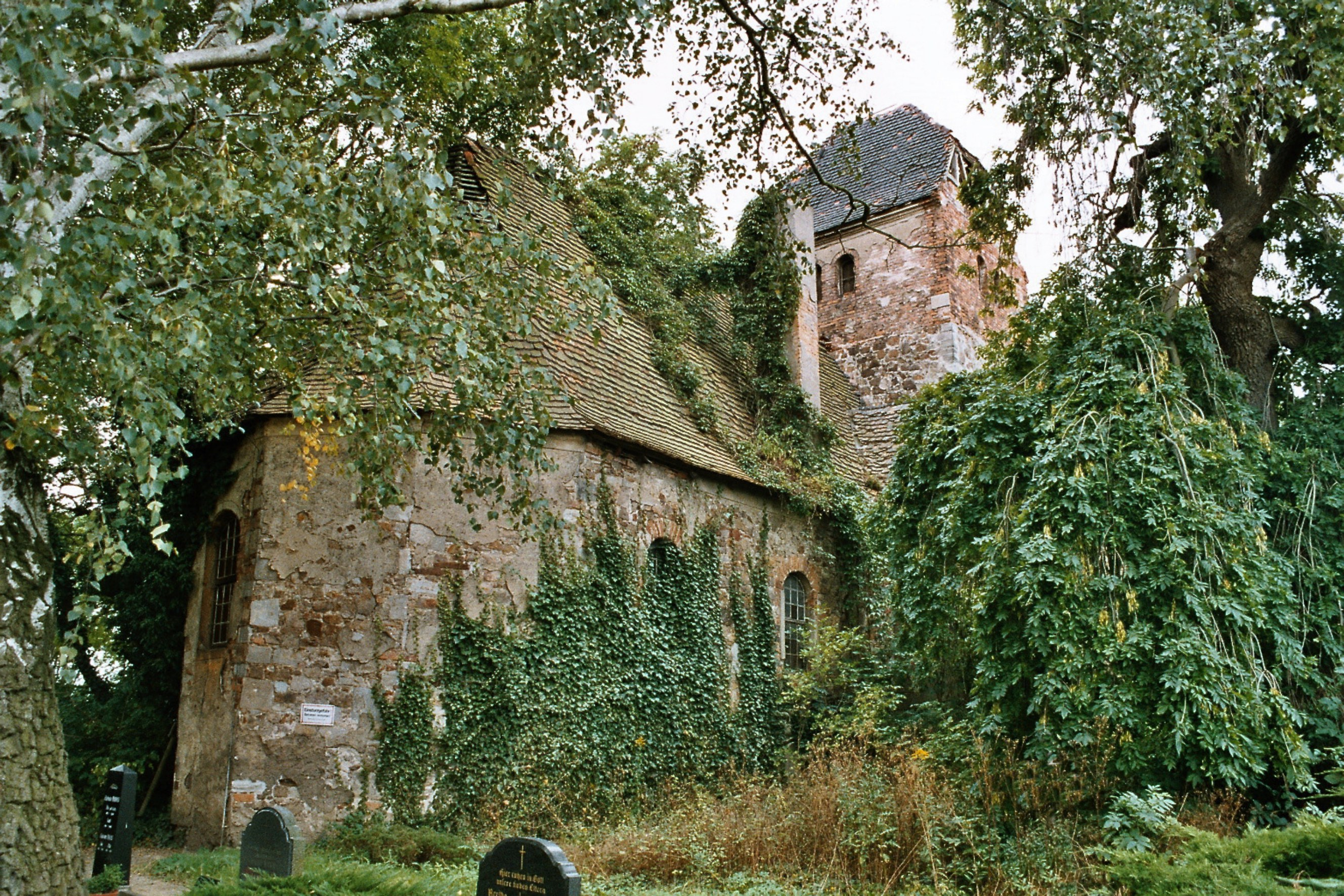 Schrenz (Zörbig), the village church